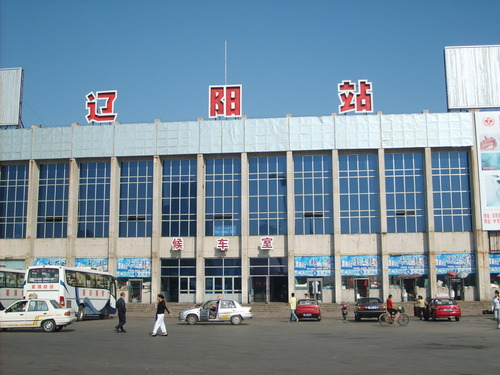 Railway station of Liaoyang, China